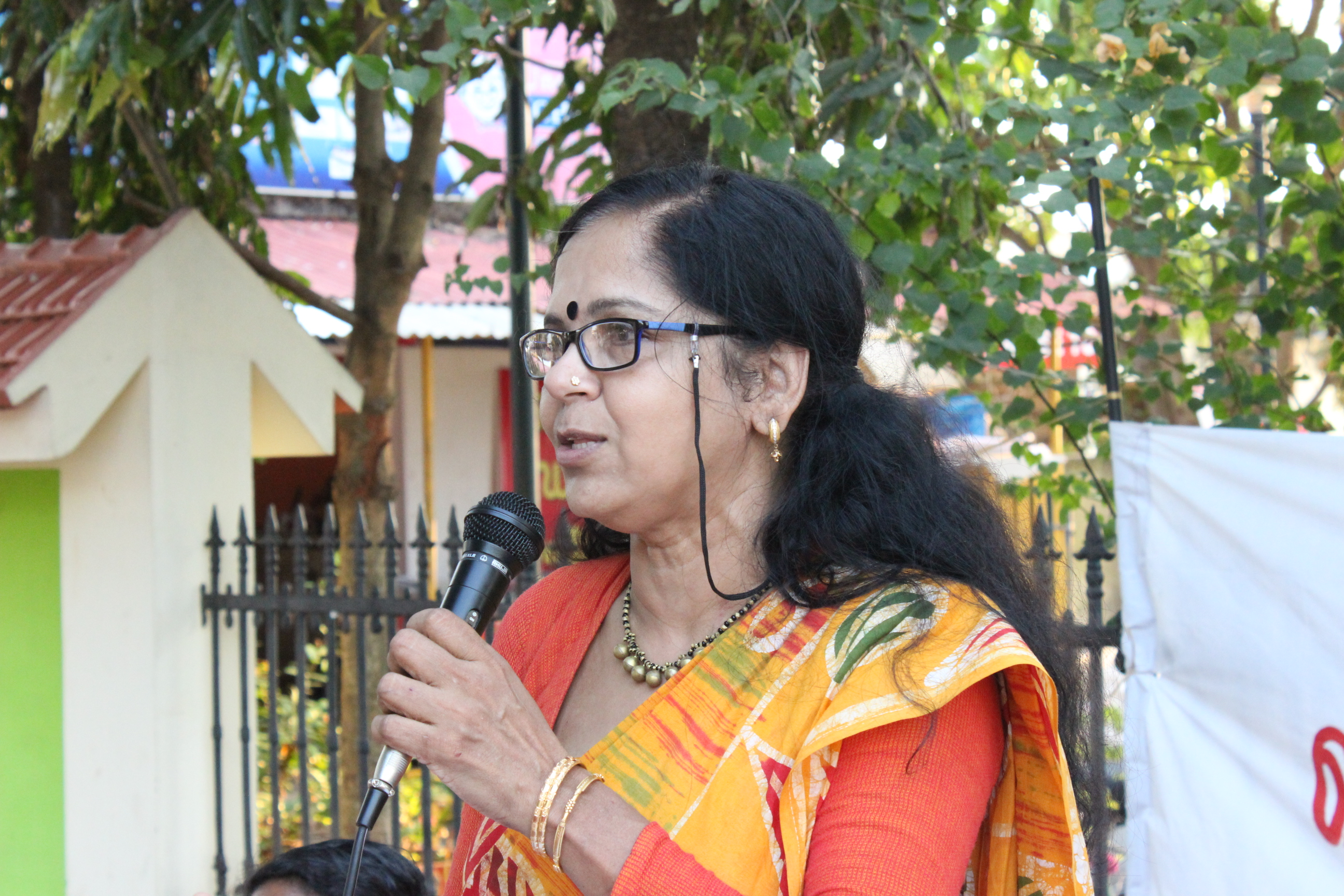 S Saradakutty is a Malayalam critic and translator. She is a teacher at Devasom Board College, Parumala.